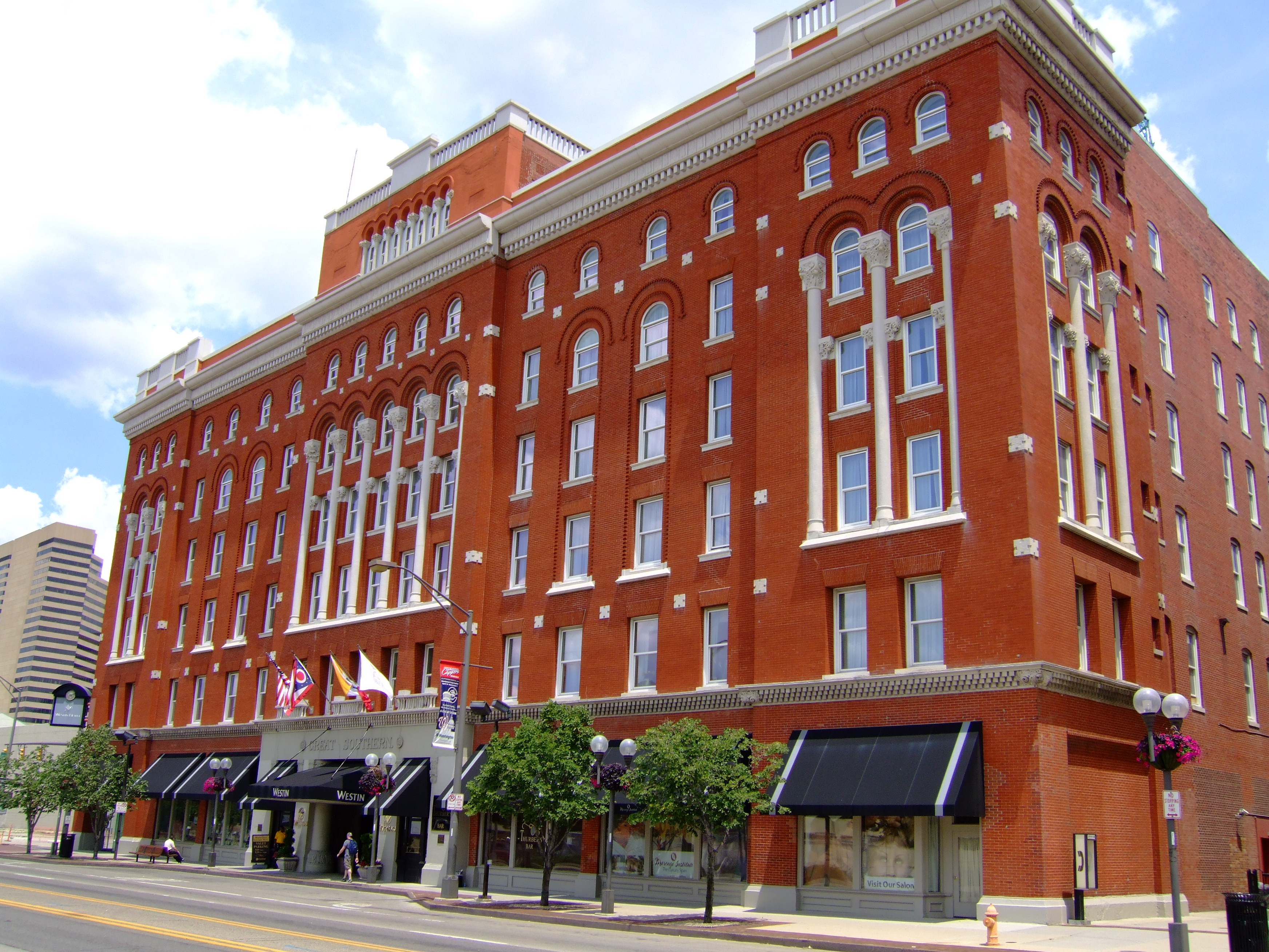 The Great Southern Hotel (and theatre) in Columbus, Ohio, USA. Self made photo.